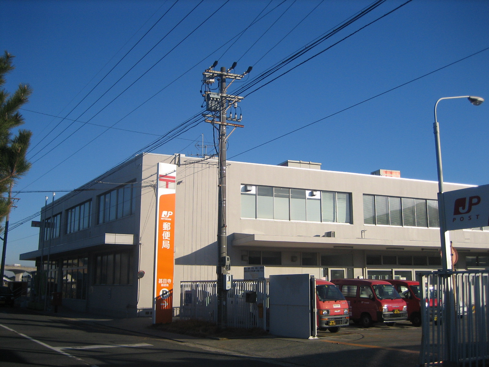 Jimokuji post office in Aichi, Japan